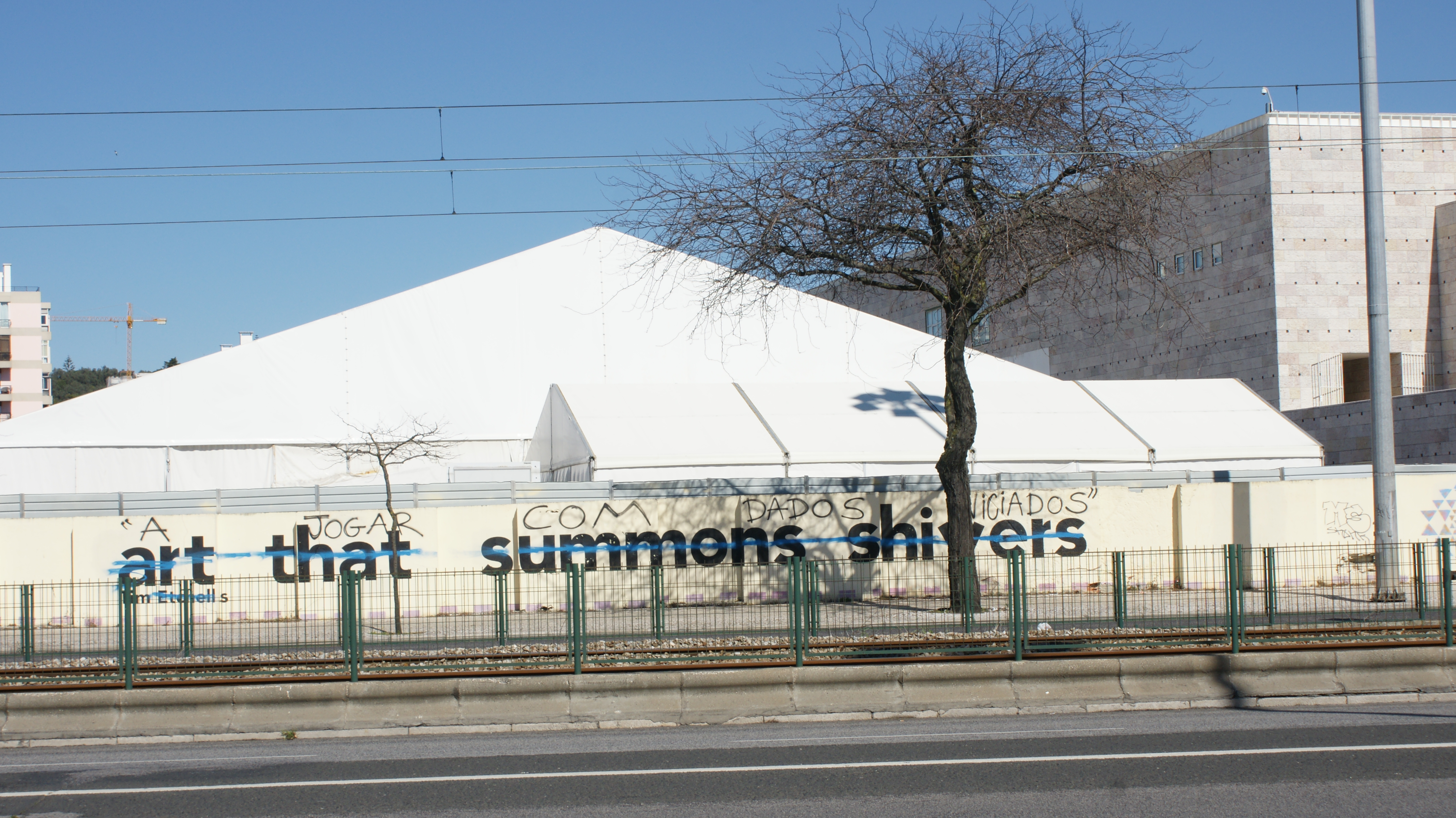 Art that summons shivers, by Lisbon biennial Artist in the City, Tim Etchells, with graffiti over.